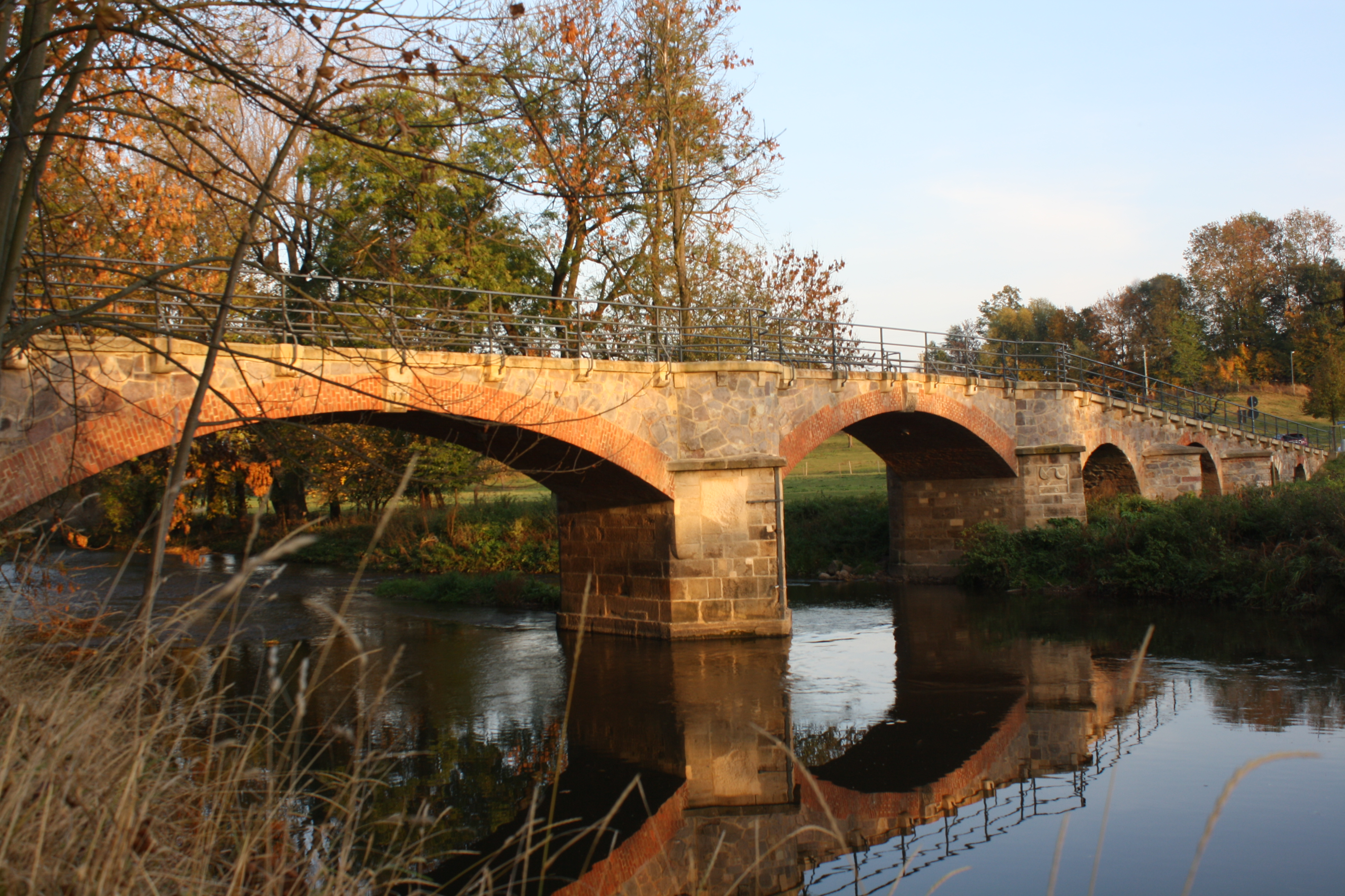 Stone arched bridge in Altenburg-Paditz in Thuringia